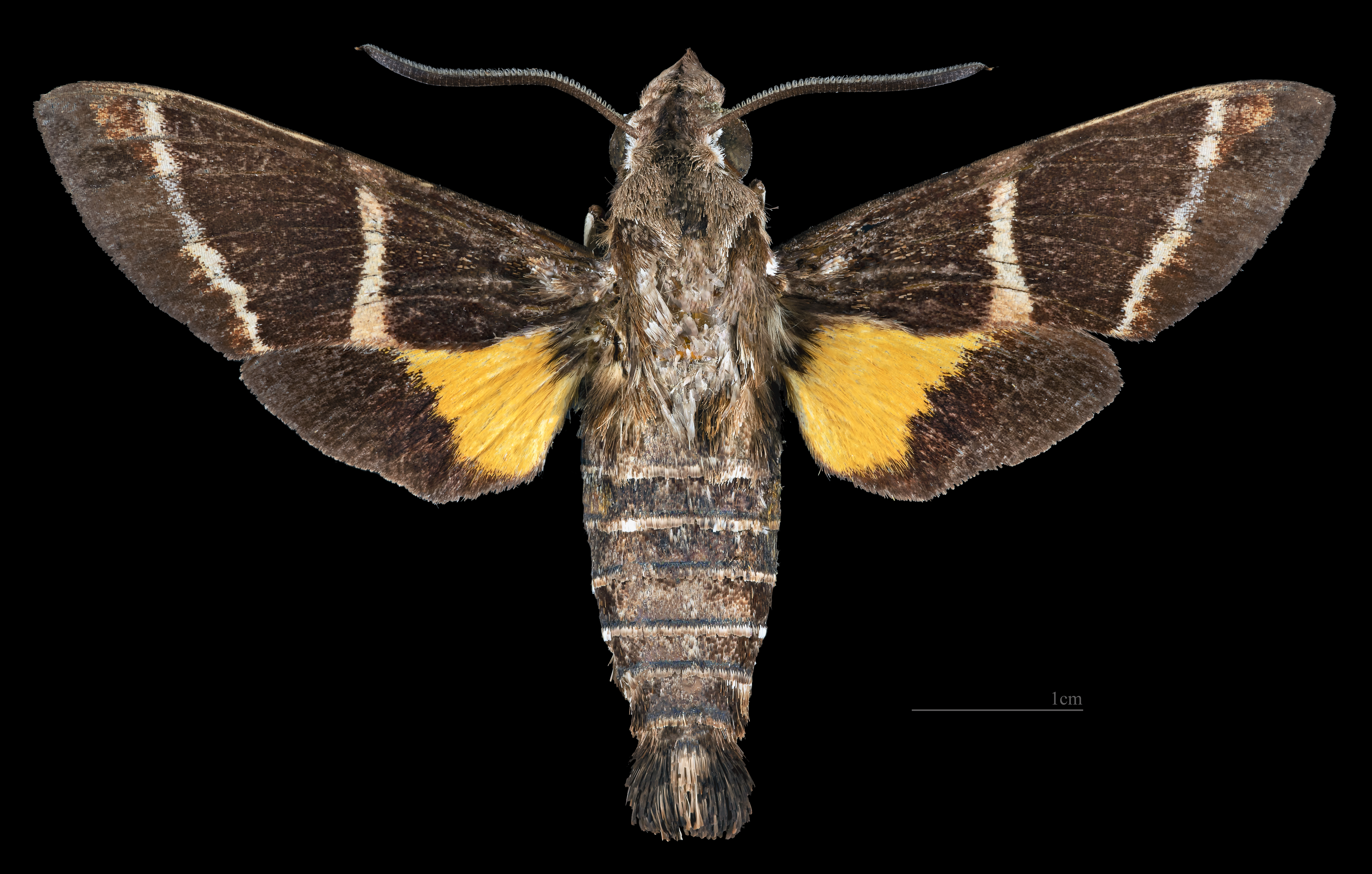 Macroglossum dohertyi - Dorsal side Collection of the Mathematician Laurent Schwartz